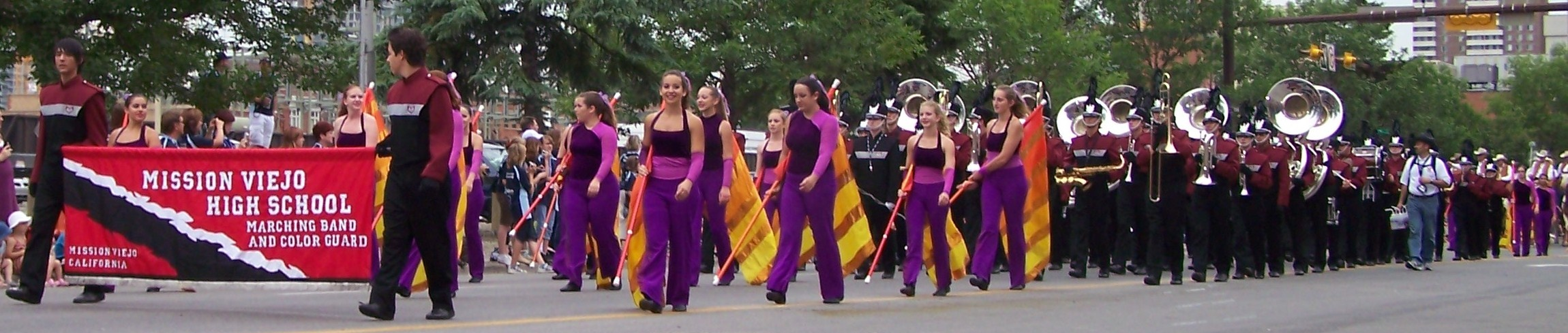 Mission Viejo High School Marching Band and Color Guard at the 2008 Calgary Stampede Parade. The image was cropped to exclude the sky above and road below the band.